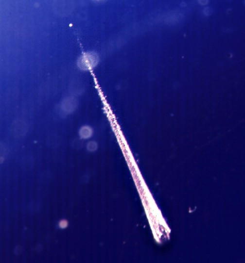 A 1.5 mm long impact track of a meteoroid captured in aerogel exposed to space by the European Retrievable Carrier (EURECA) spacecraft launched by STS-46 and recovered by STS-57. The wide end (open end) of the "carrot" is the location of hypervelocity entry into the 0.05 g/cc aerogel. As the particle is slowed by the aerogel the track narrows to a point. The 10 micron projectile is seen at the tip of the "carrot".